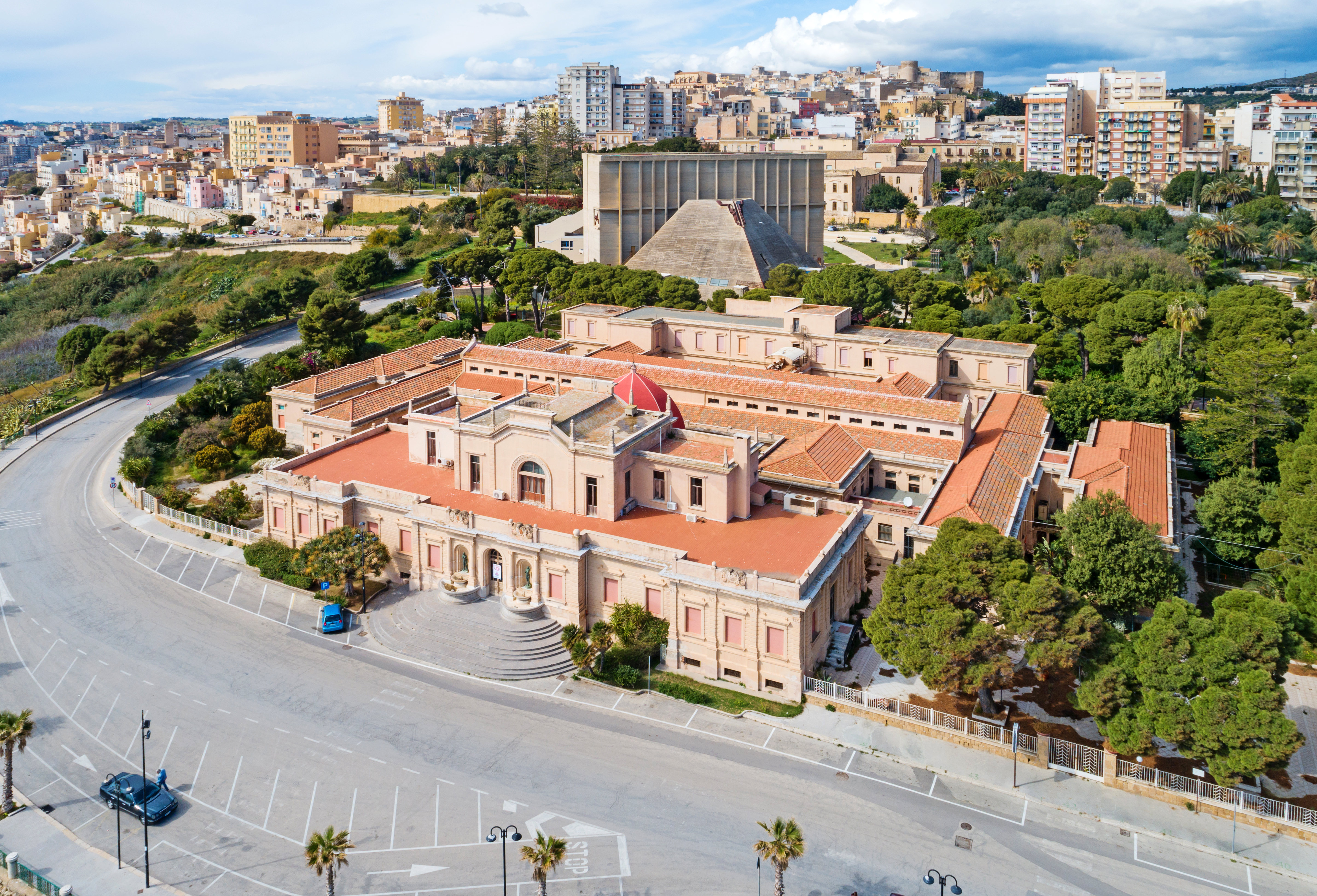 Bath in Sciacca, Sicily